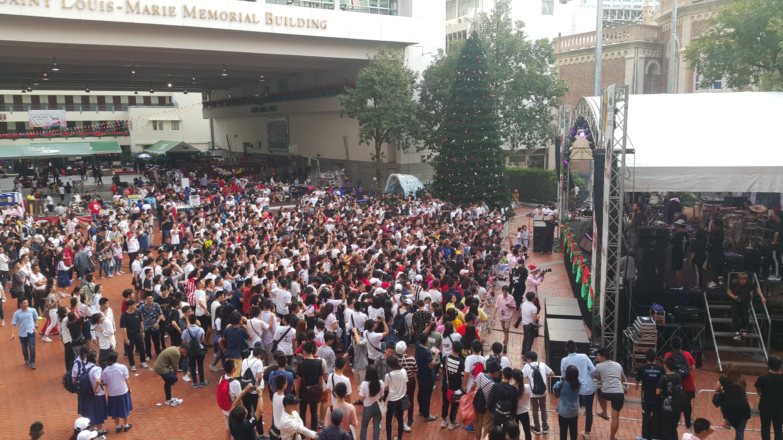 Crowd at a little concert